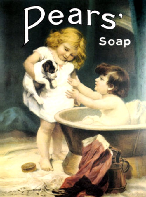 Pears' Soap poster based on the oil and canvas "His Turn Next". The original painting is part of the collection of the Lady Lever Art Gallery. Also see this painting in the collection's online gallery at